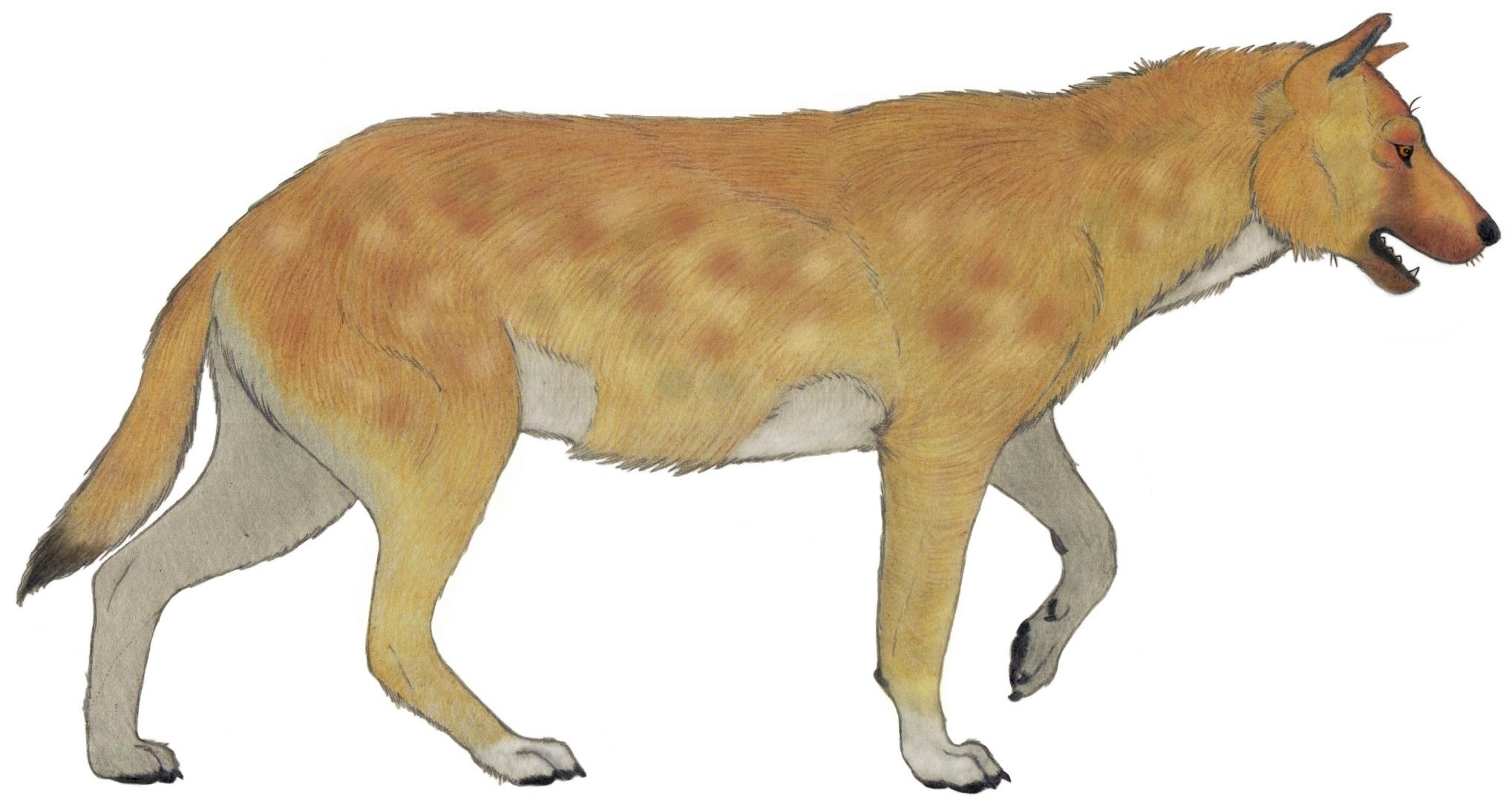 Illustration of X. lycaonoides, with outline based on [1].